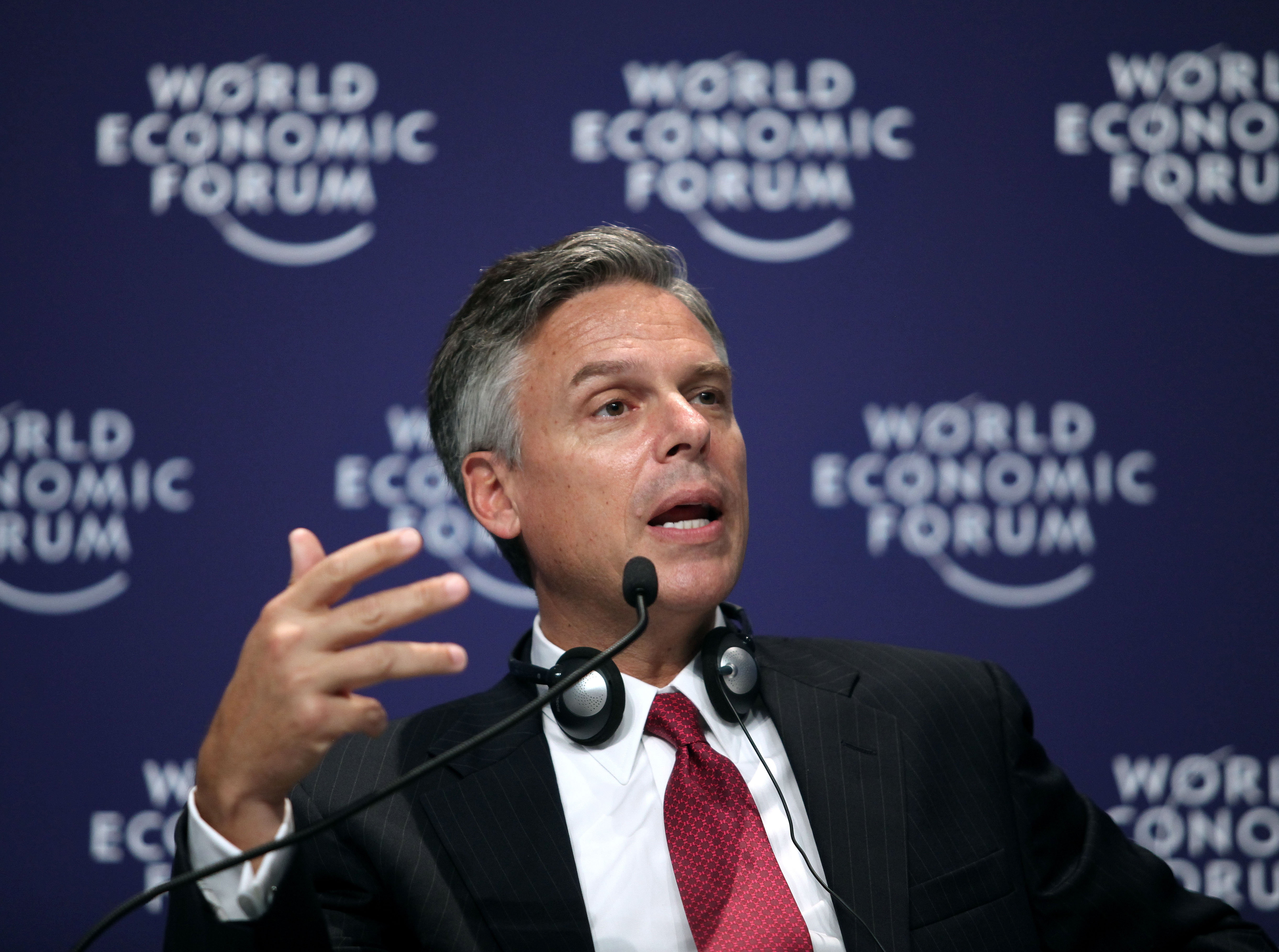 Jon M. Huntsman Jr, US Ambassador to the People's Republic of China, speaks during the Global Dimensions of China's Domestic Growth session at The World Economic Forum Annual Meeting of the New Champions in Dalian, China 10-12 September 2009.